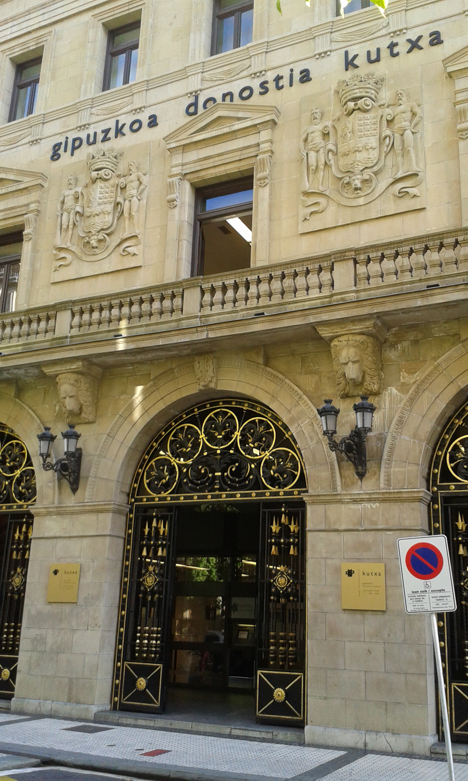 Kutxa headquarters in Donostia, Basque Country